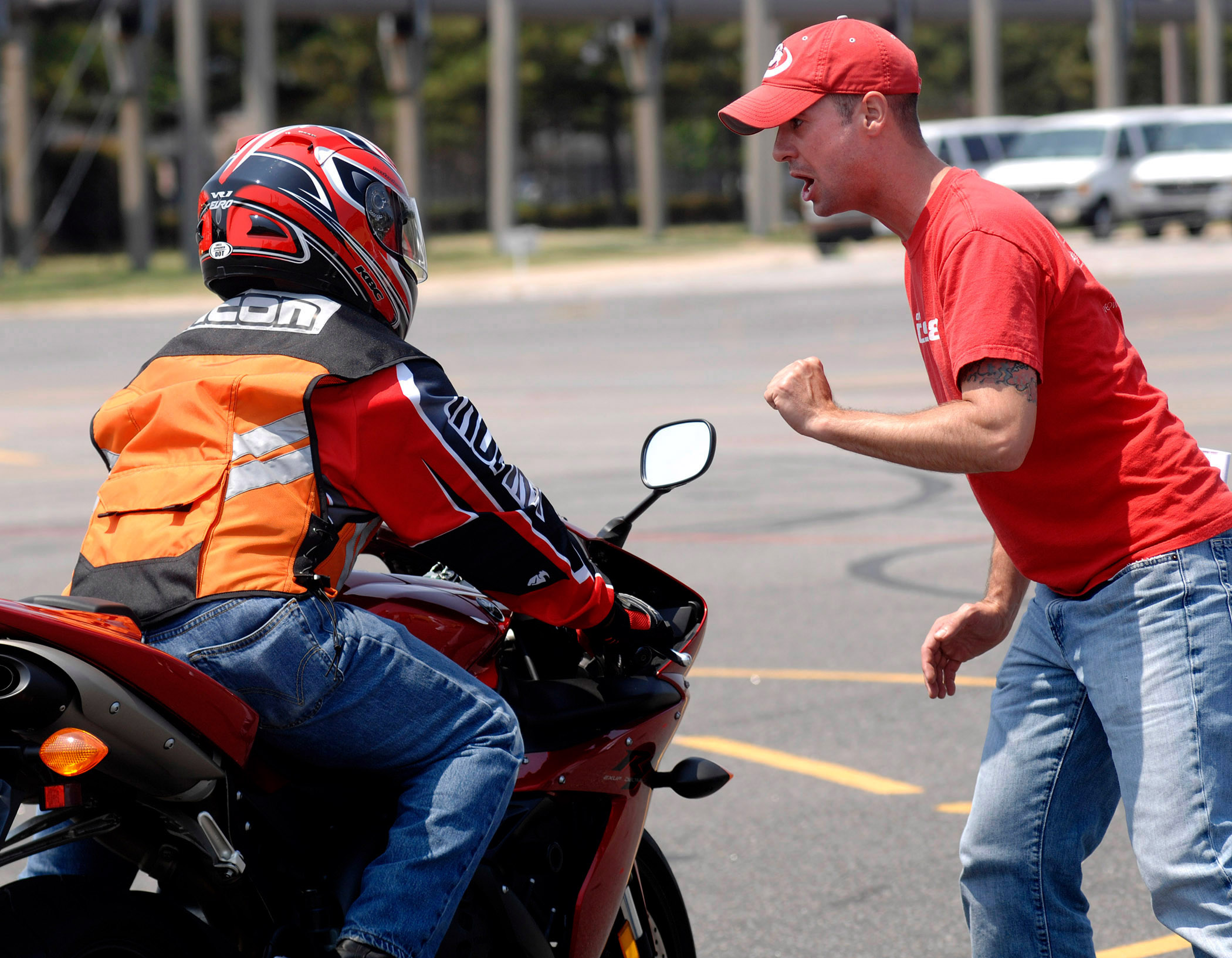 NORFOLK, Va. (June 11, 2008) Volunteer motorcycle safety instructor Nick Brunney gives feedback to Aviation Boatswain's Mate (Handling) 2nd Class Jun DeLeon, after performing a rapid deceleration maneuvering exercise during the first Military Sport Bike Course at Naval Station Norfolk. The course is sponsored by the Naval Safety Center. U.S. Navy photo by Mass Communication Specialist 2nd Class Kristopher S. Wilson (Released)